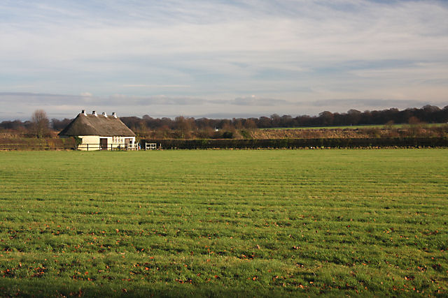 Thatched barn at Godolphin Stables Viewed from the road between Newmarket and Snailwell. The area beyond the hedge is used for training racehorses. The building is understood to form part of an isolation unit for the racing operation.